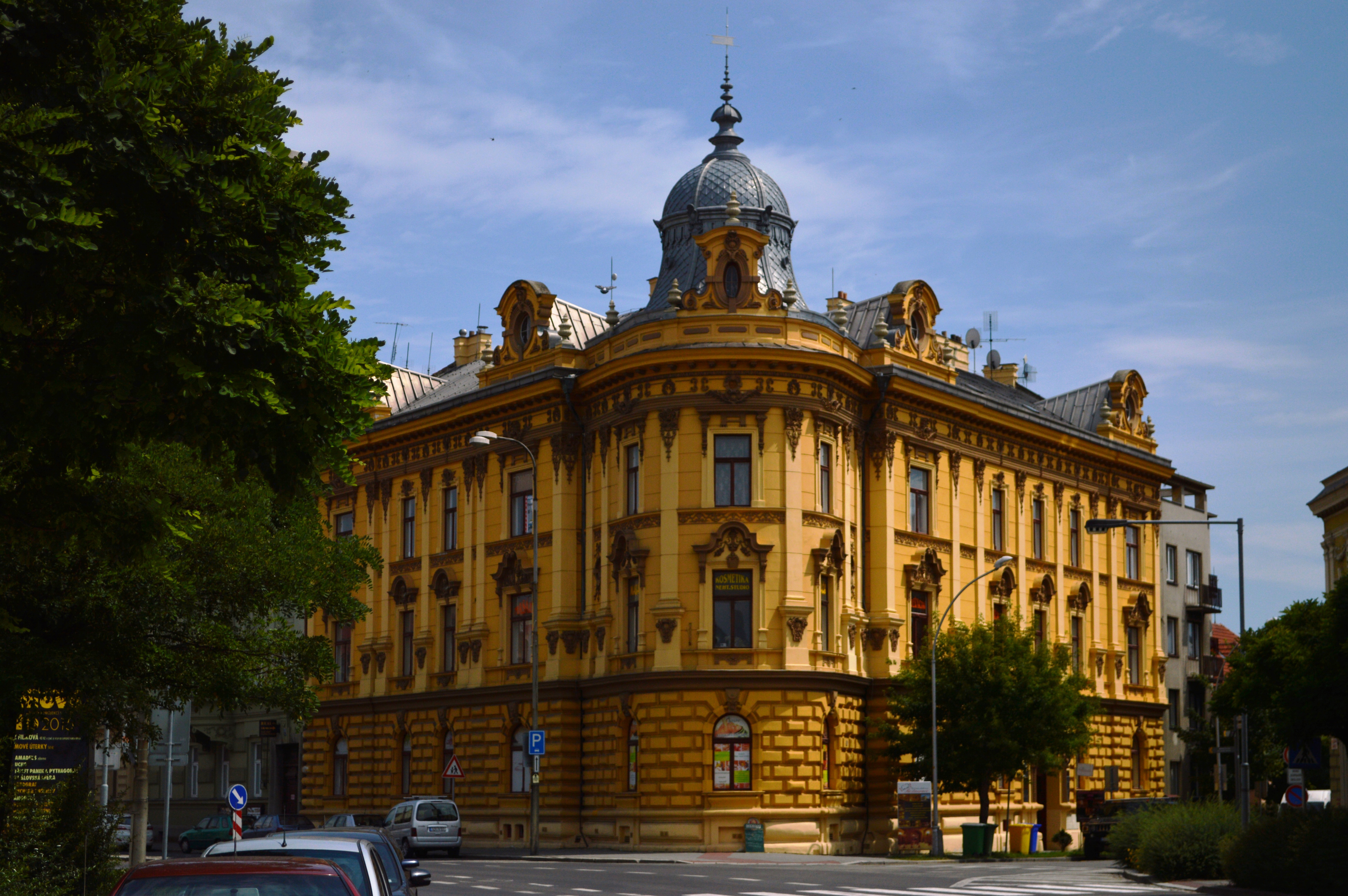 Kroměříž (Polish: Kromieryż